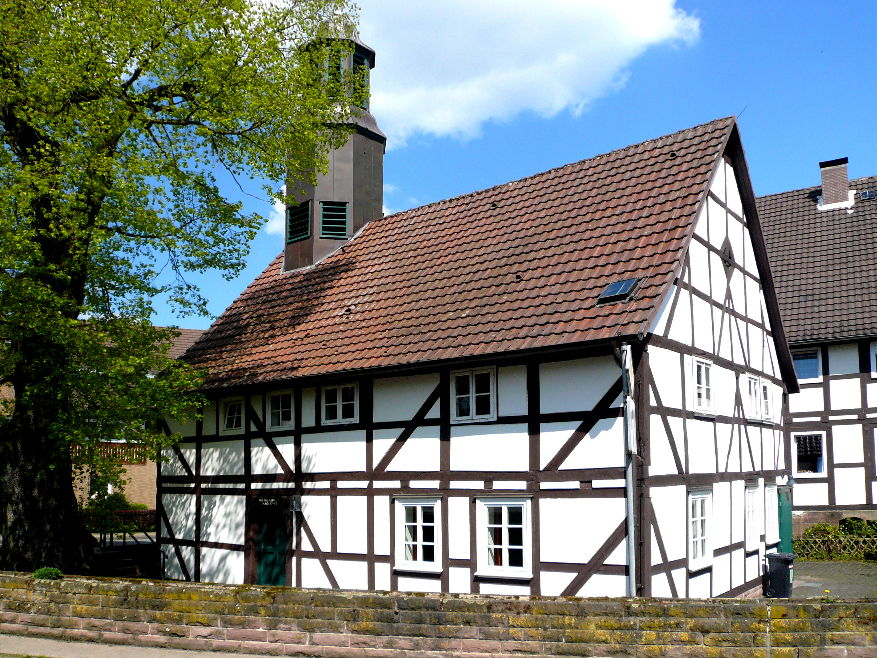 Timber framed chapel in Dinkelhausen, Uslar, Lower saxony, Germany